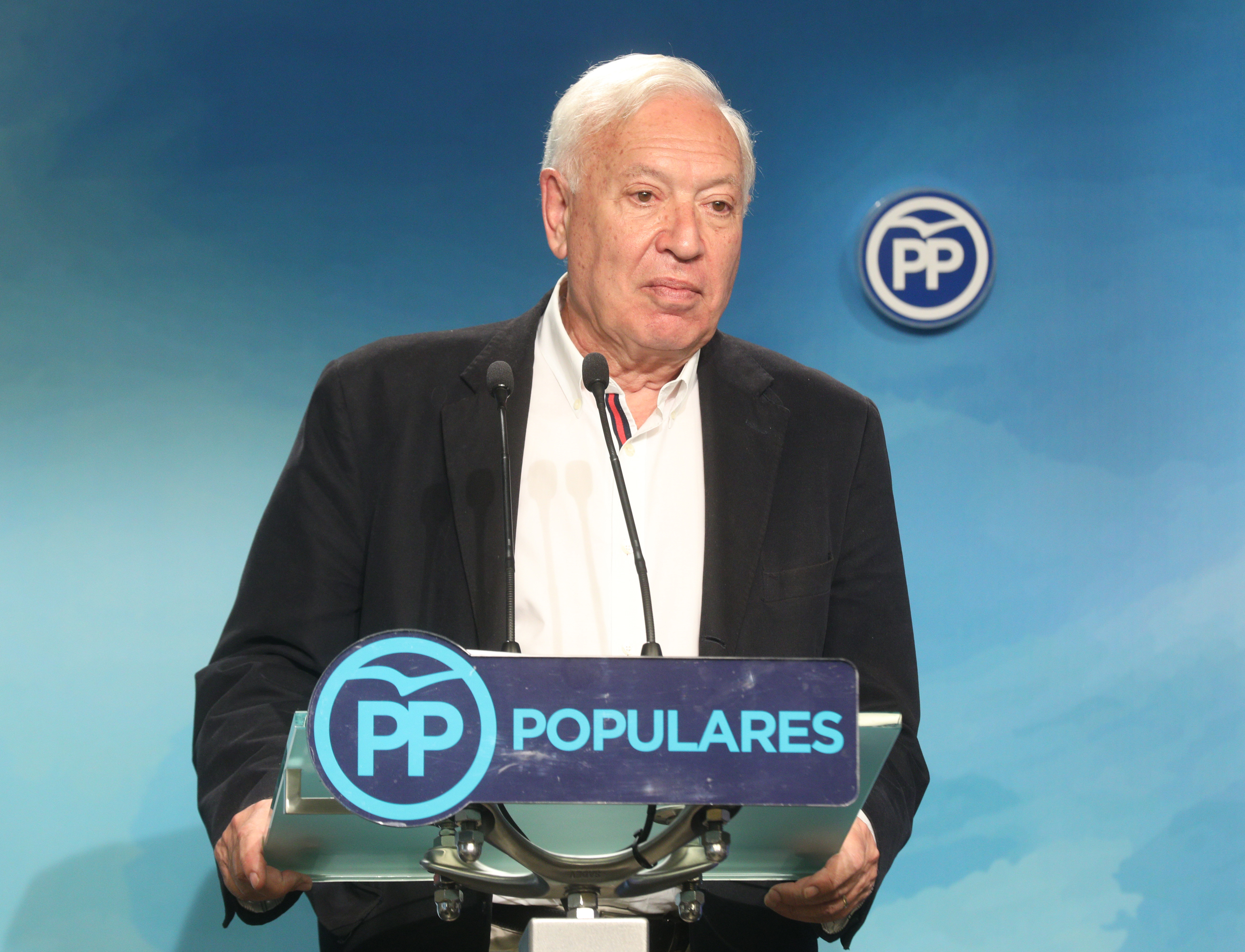 José Manuel García-Margallo en su comparecencia tras conocerse los resultados de las primarias del Partido Popular